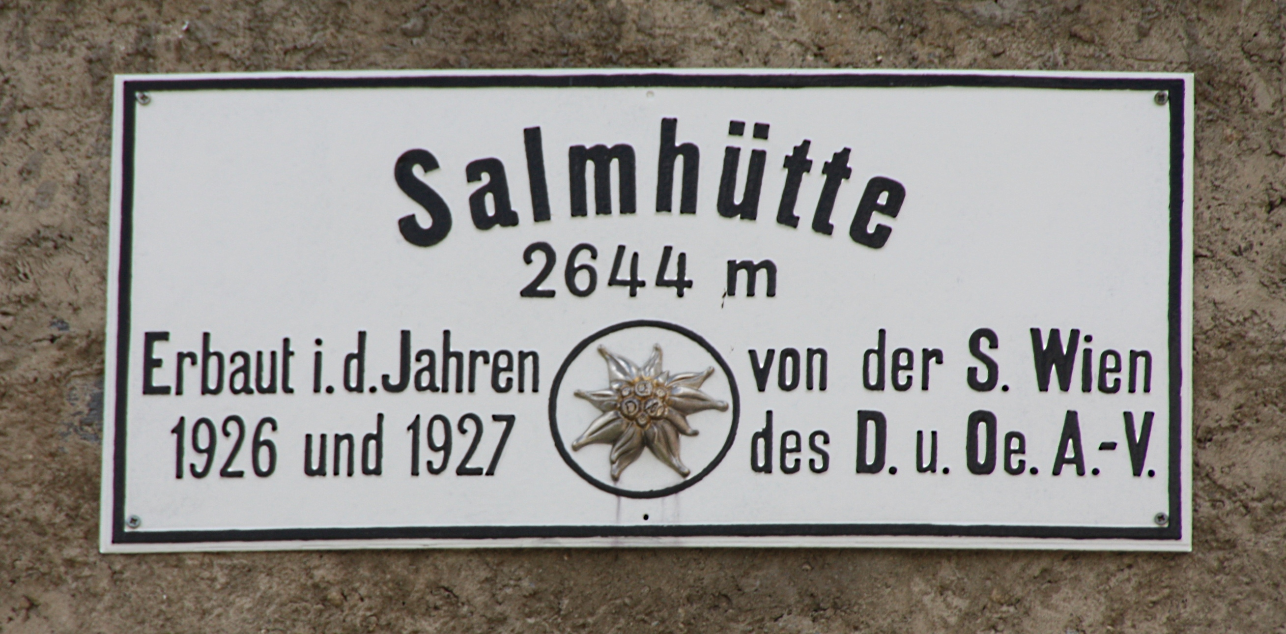 Salmhütte, signpost